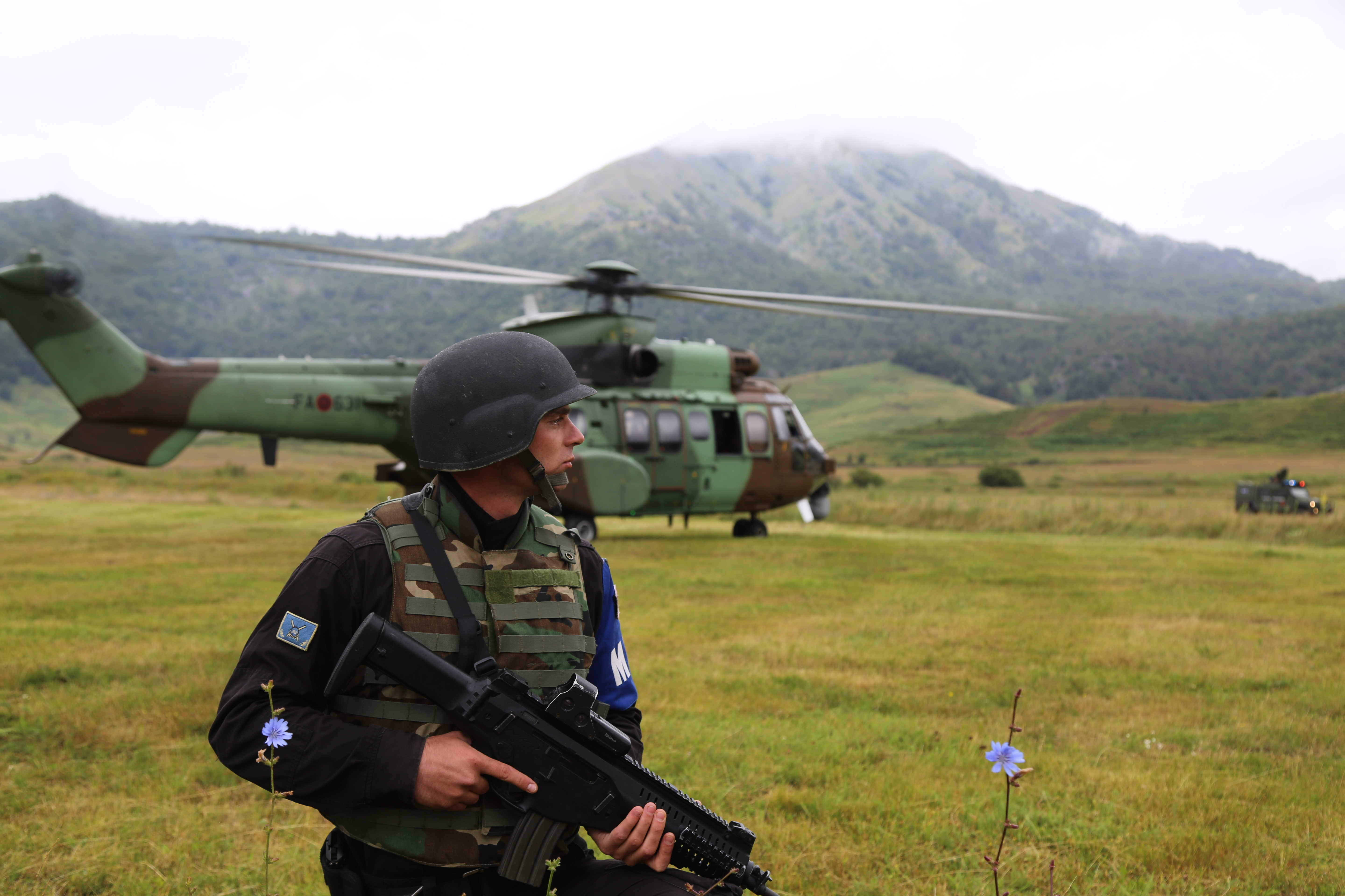 Military Police in Albania posing in front of an Albanian army helicopter